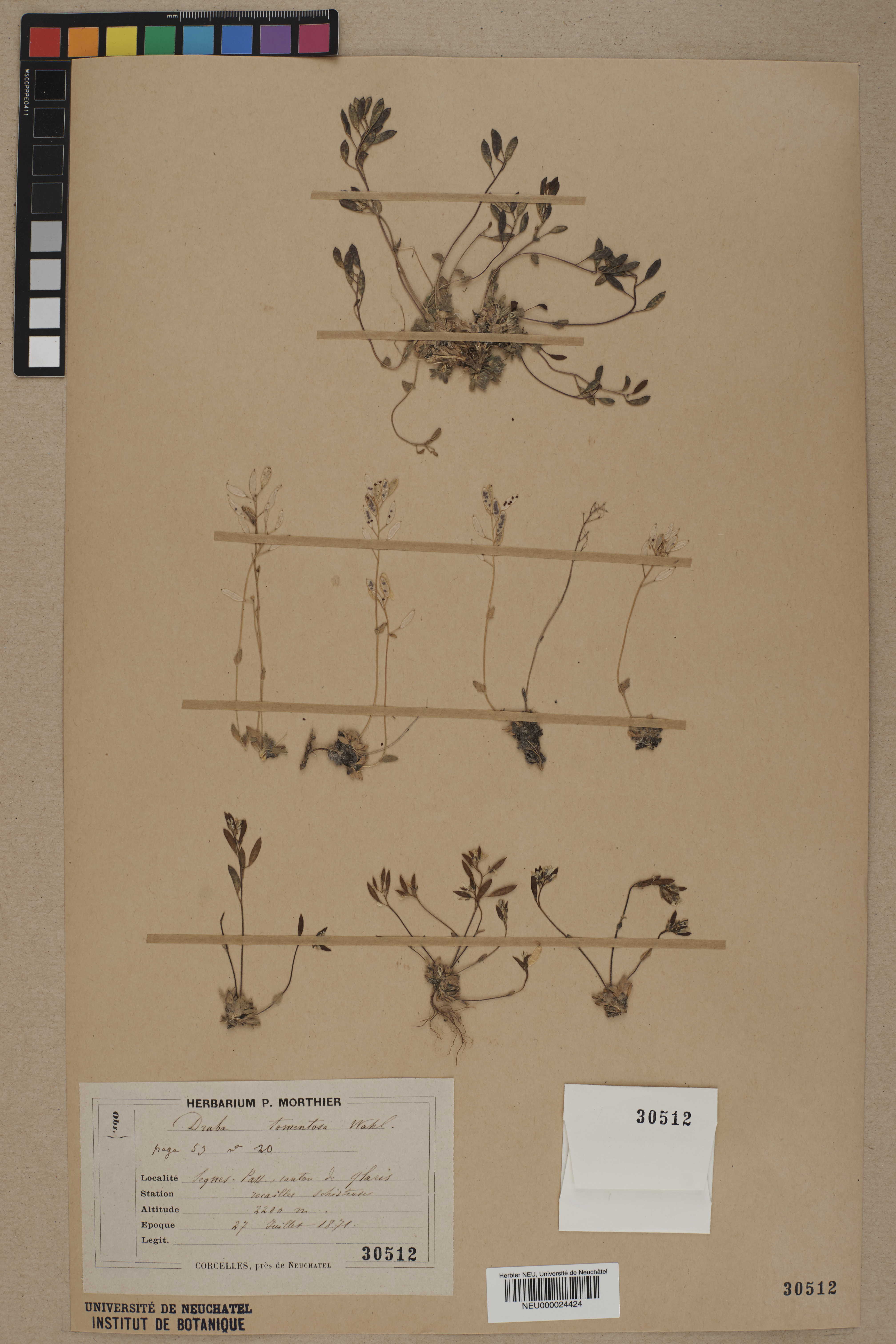 Dried pressed specimen of Draba tomentosa